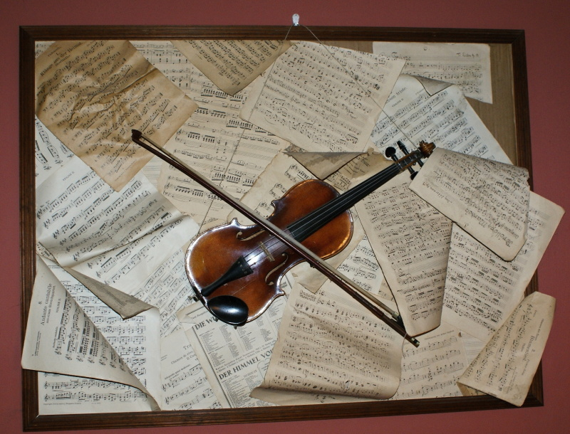 Musical notation and violin